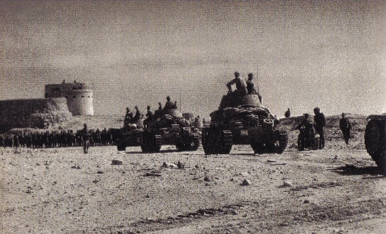 Italian tanks near the Mechili fort, 1941-1942 circa.